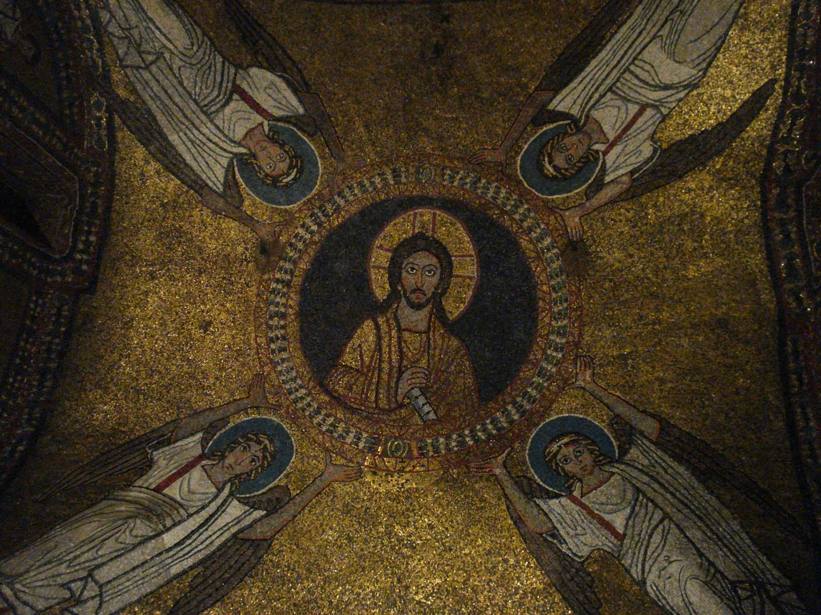 St Zeno Chapel-cupola